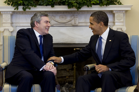 United States President Obama meets former British Prime Minister Gordon Brown in Washington, D.C. at the White House.